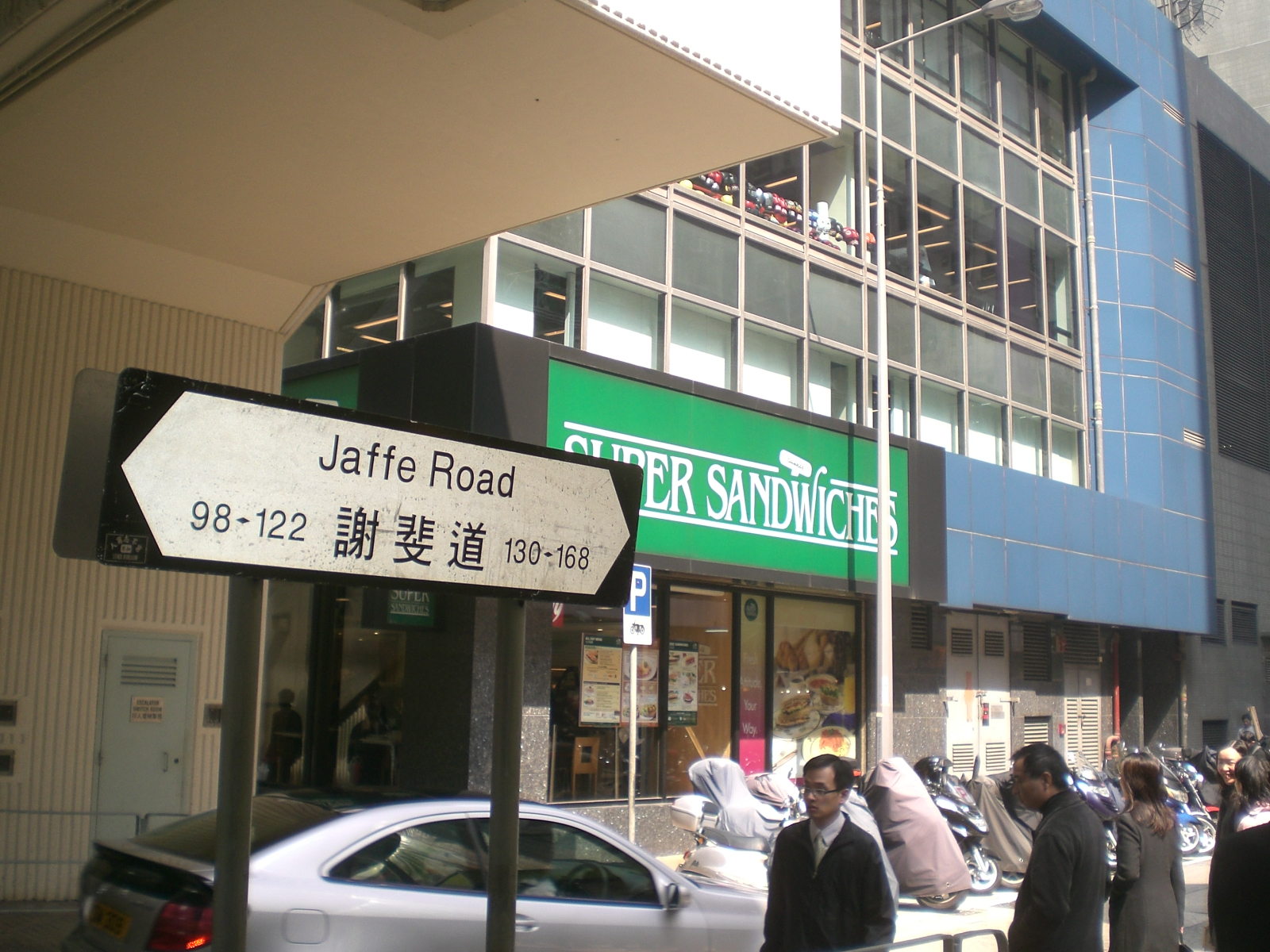 謝斐道 大家樂奧莉華超級三明治, Oliver's Super Sandwiches shop, Jaffe Road, Wan Chai, Hong Kong.